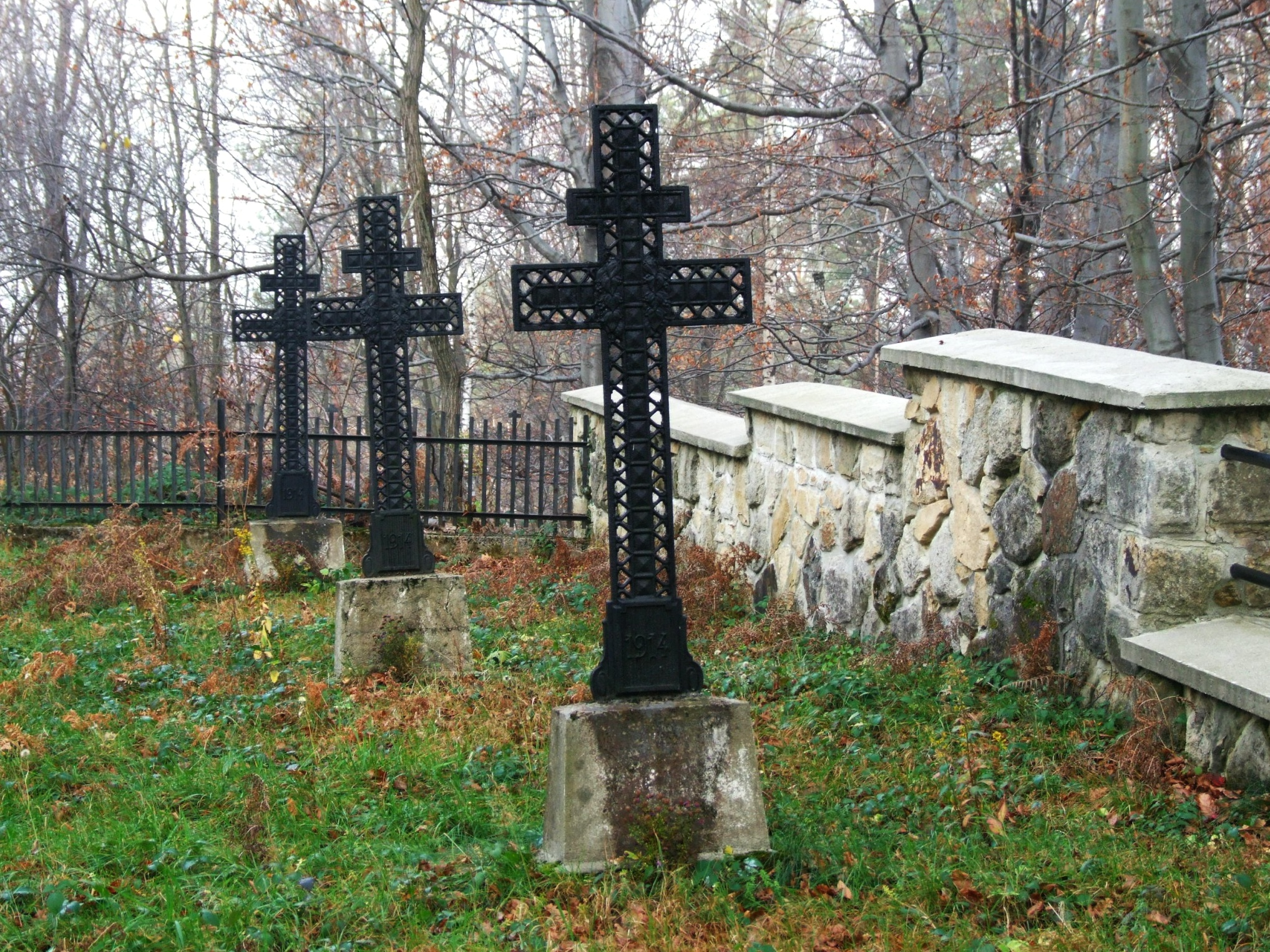 World War I Cemetery nr 340 in Wola Nieszkowska